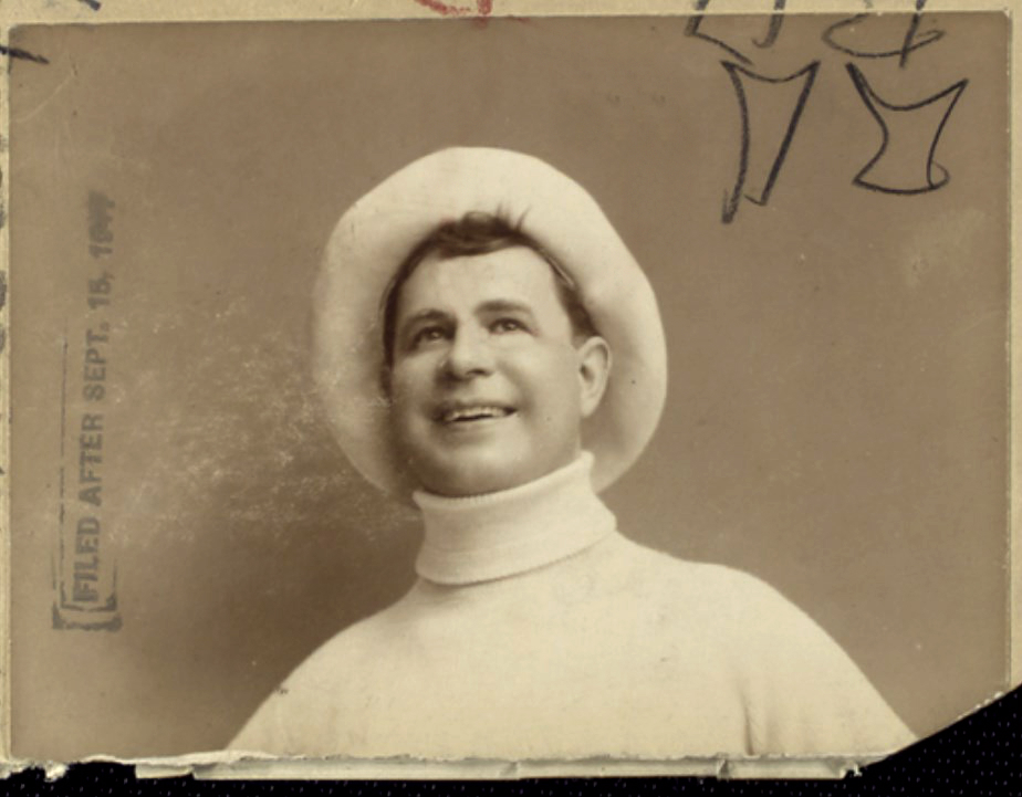 Undated photo of composer David Braham.